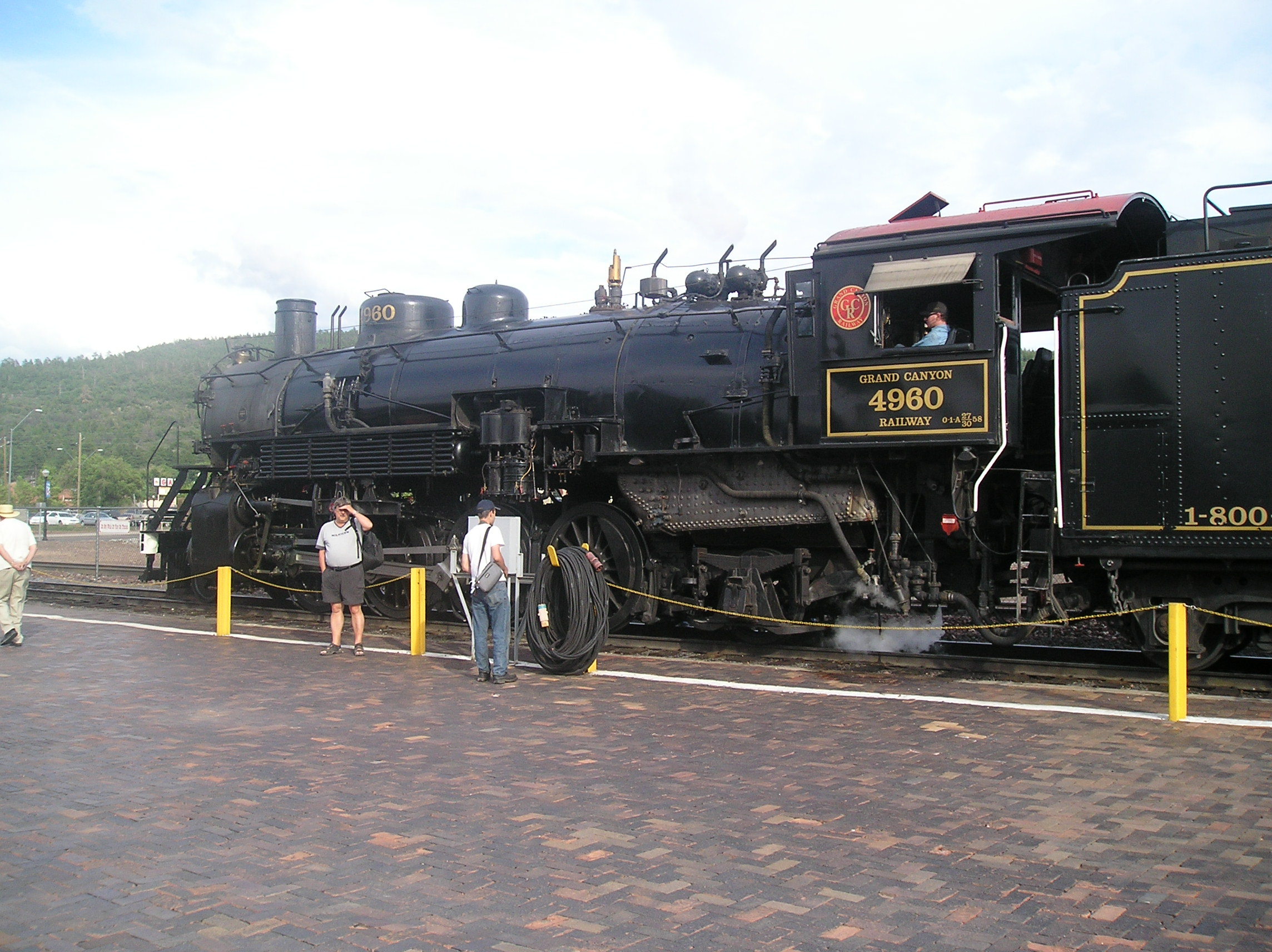 Grand Canyon Railroad Enigne at the Williams, Az depot.